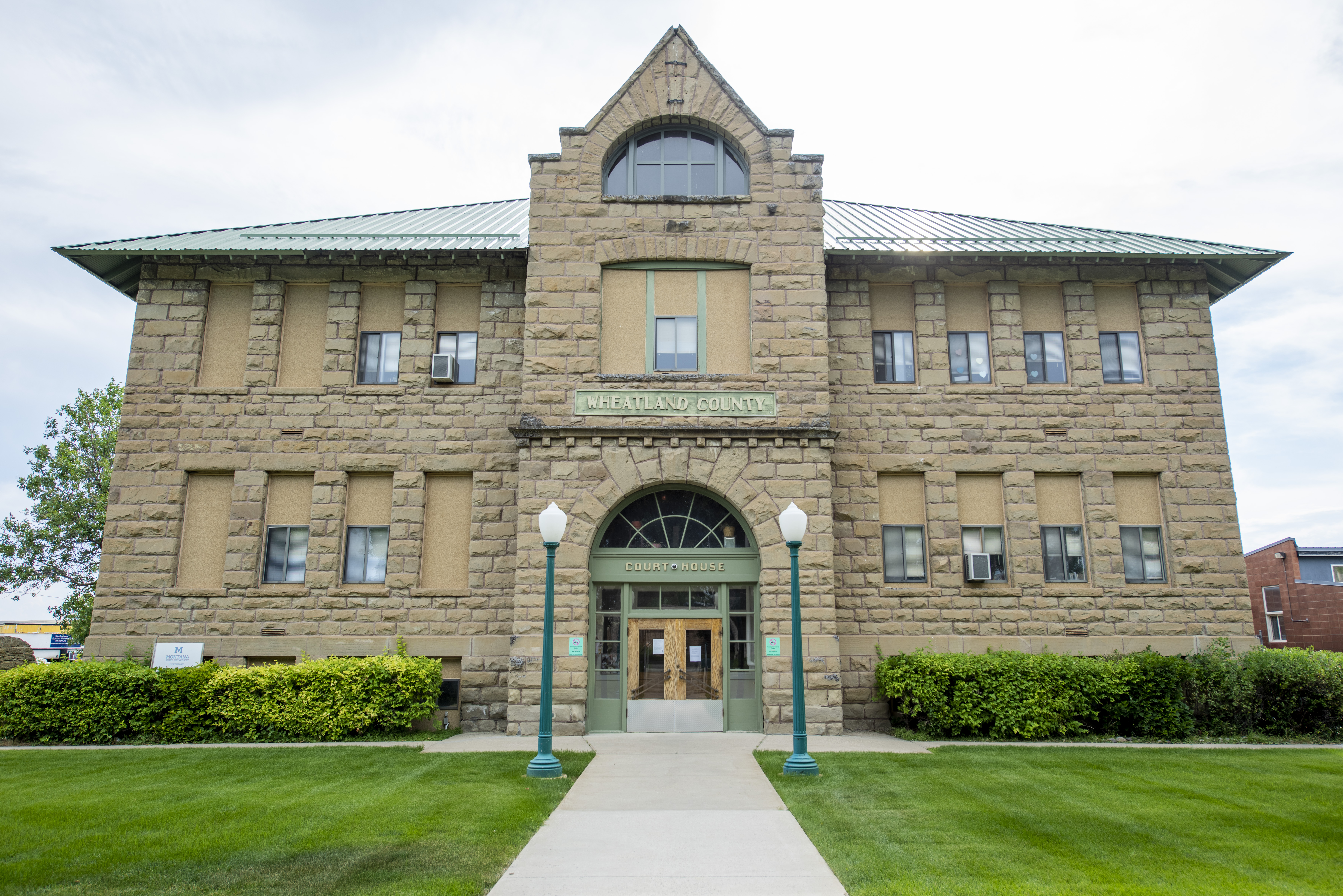 Photograph of the Wheatland County Courthouse in Harlowton, Montana. Image taken in July 2020.